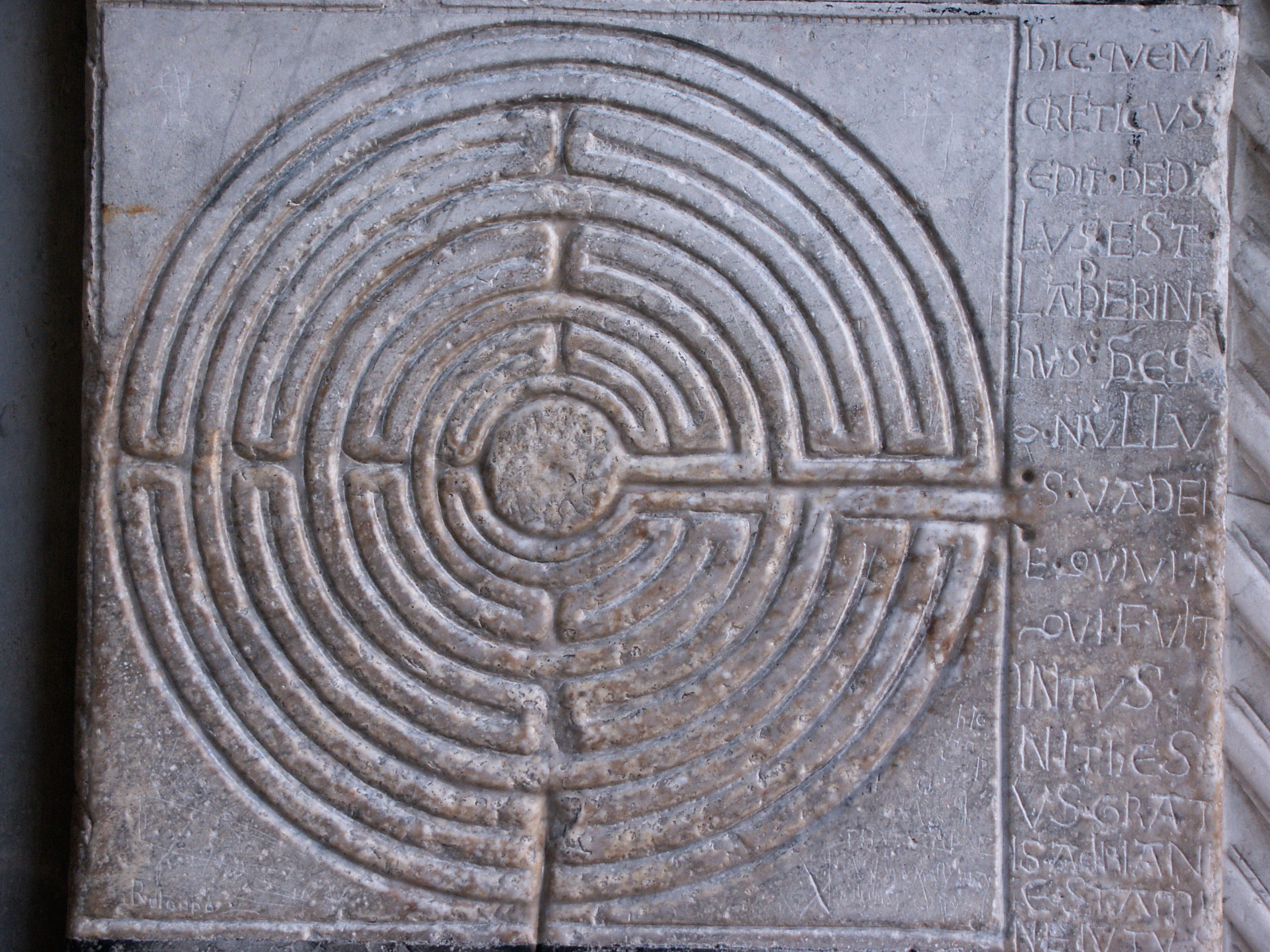 Labyrinth on the portico of the cathedral of San Martino at Lucca, Tuscany, Italy.